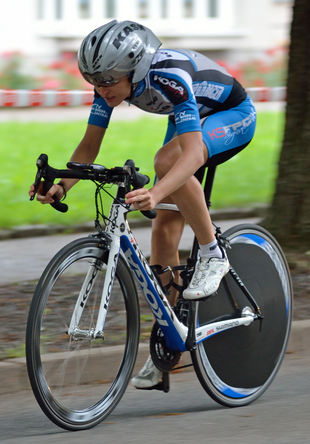 Ulrike Schwalbe from the team Koga Ladies – Central Rhede – Fachklinik Dr. Herzog during the Women's Tour of Thuringia 2012 in Zwickau, Germany.